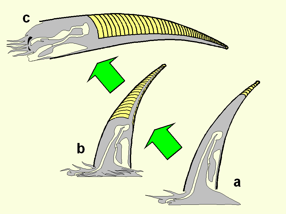 Representation of the probable early evolutionary history: from Monoplacophora of the Hypseloconidae group (a), through primitive Plectronocerida nautiloids (b), to Ellesmerocerida nautiloids (c). After Dzik J. (1981). Origin of the Cephalopoda. Modified